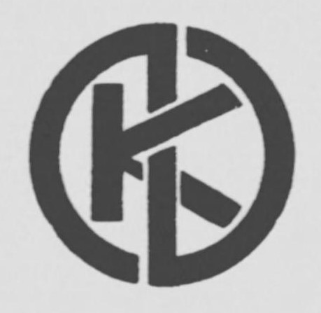 The logo of South Seas Development Company (Nan'yo Kohatsu Kabushikigaisha, NKK).